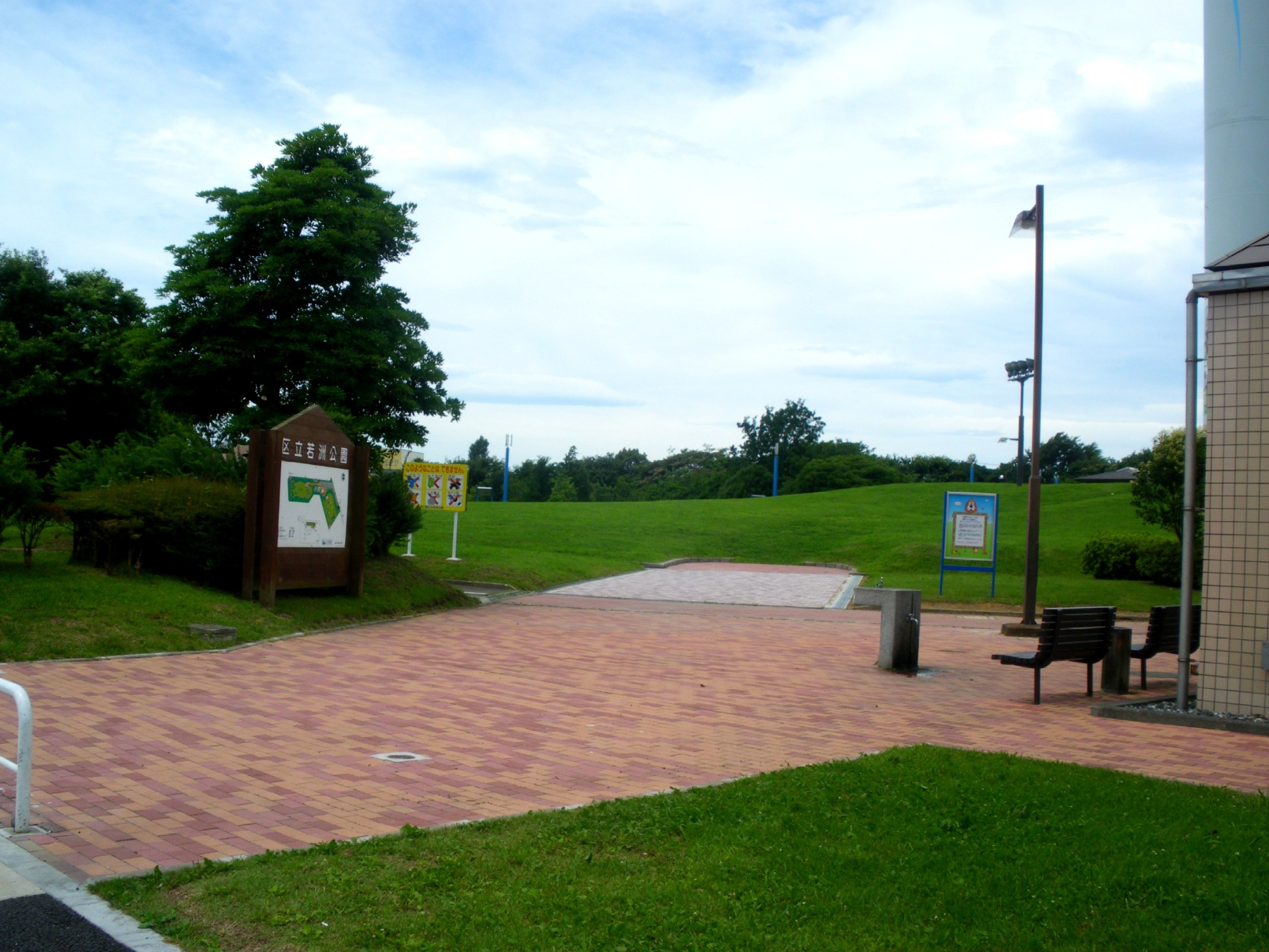 the entrance of Wakasu Park(Wakasu,Koto,Tokyo)